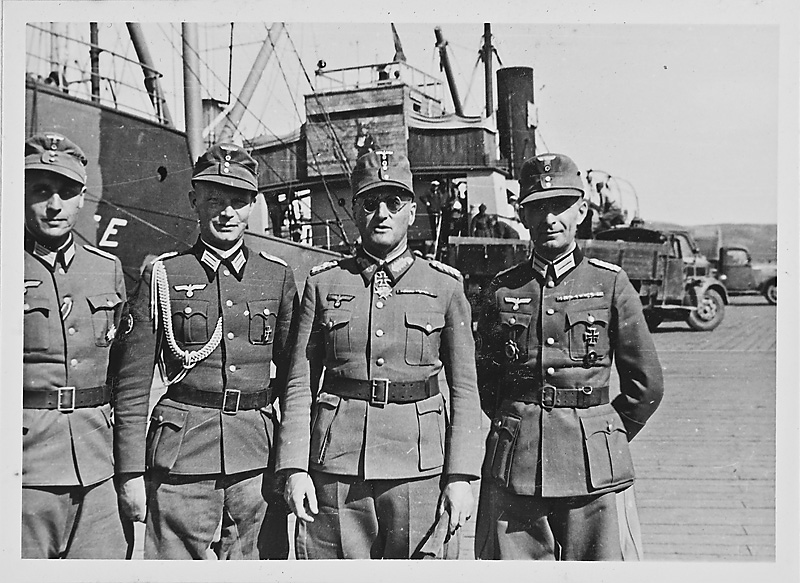 Image from "Photo Album from Terboven's journey to Nothern Norway and Finland 10–27 July 1942" (Mit dem Reichskommissar nach Nordnorwegen und Finnland 10. bis 27. Juli 1942), 375 images uploaded to www. by Riksarkivet (National Archives of Norway) 2012. See scanned album here